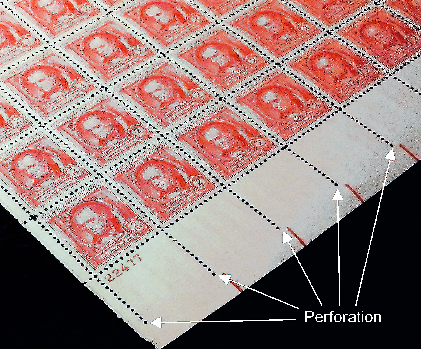 Sheet of US Postage stamps, 1940 issue, partial image, featuring perforations.